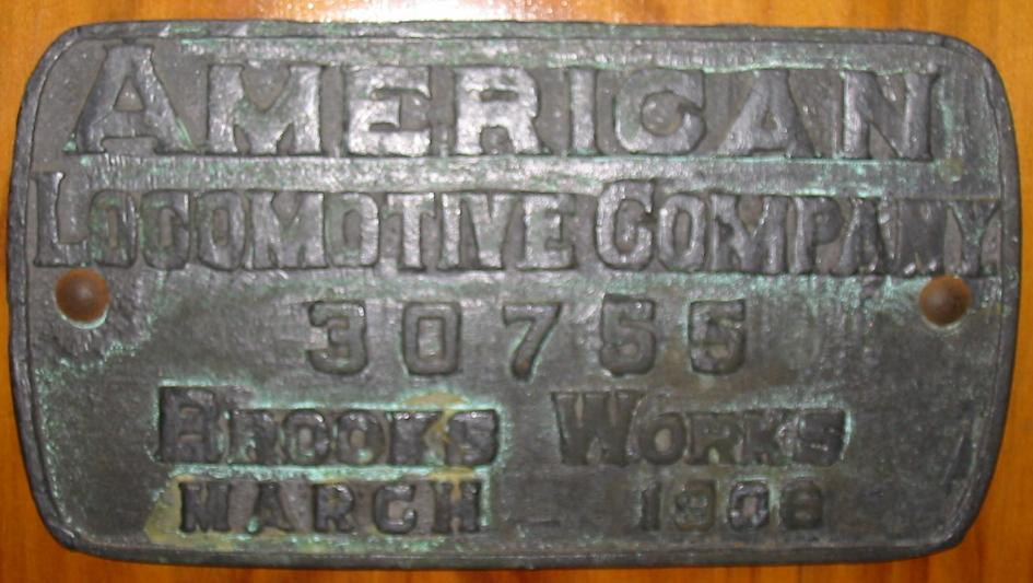 ALCO-Brooks builder's plate on display at the MidContinent Railway Museum, North Freedom, WI. Photo by Sean Lamb (Slambo), October 10 2004